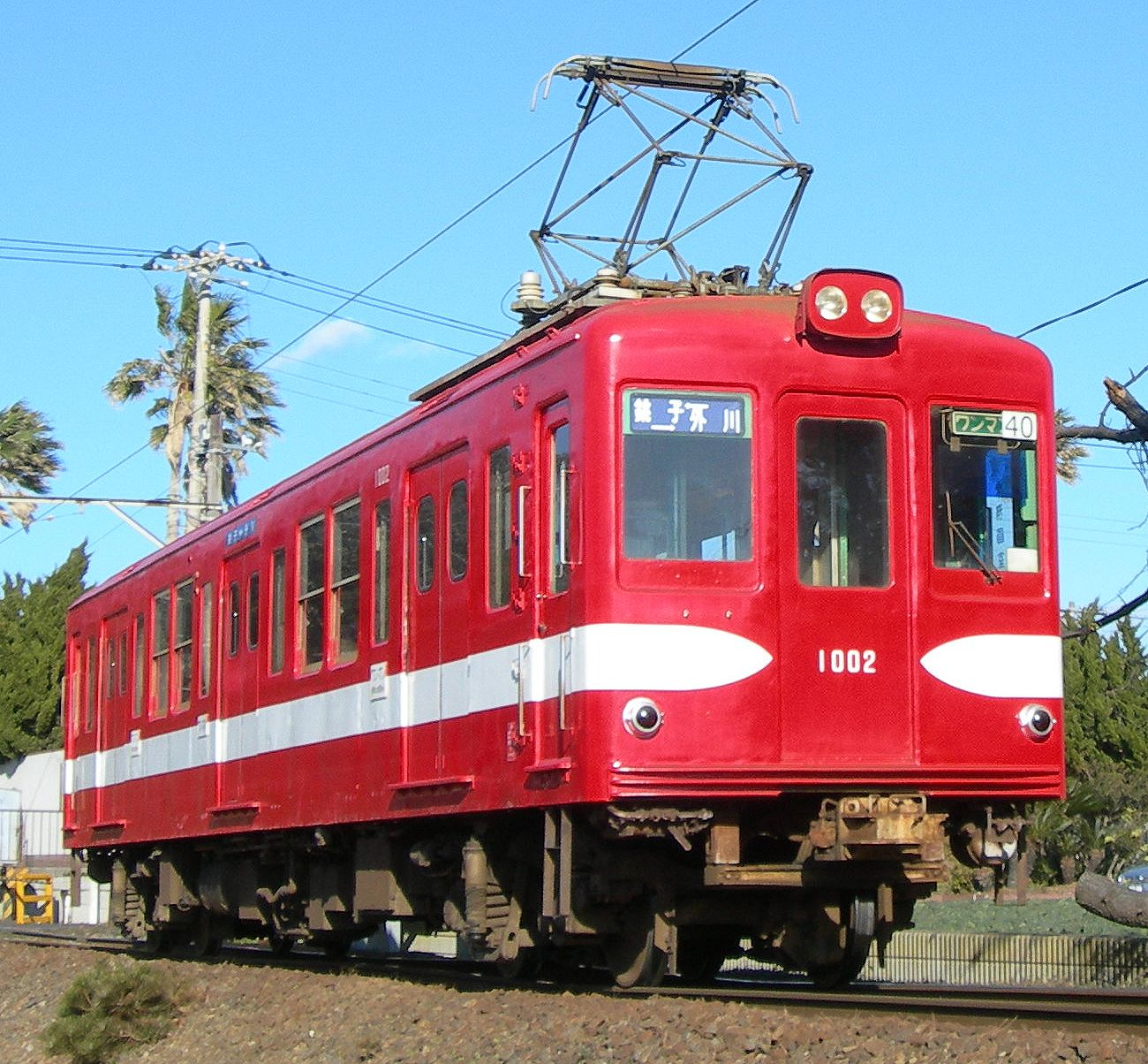 Choshi Electric Railway 1000 series EMU car DeHa 1002 in "Marunouchi Line" livery, near Inuboh Station